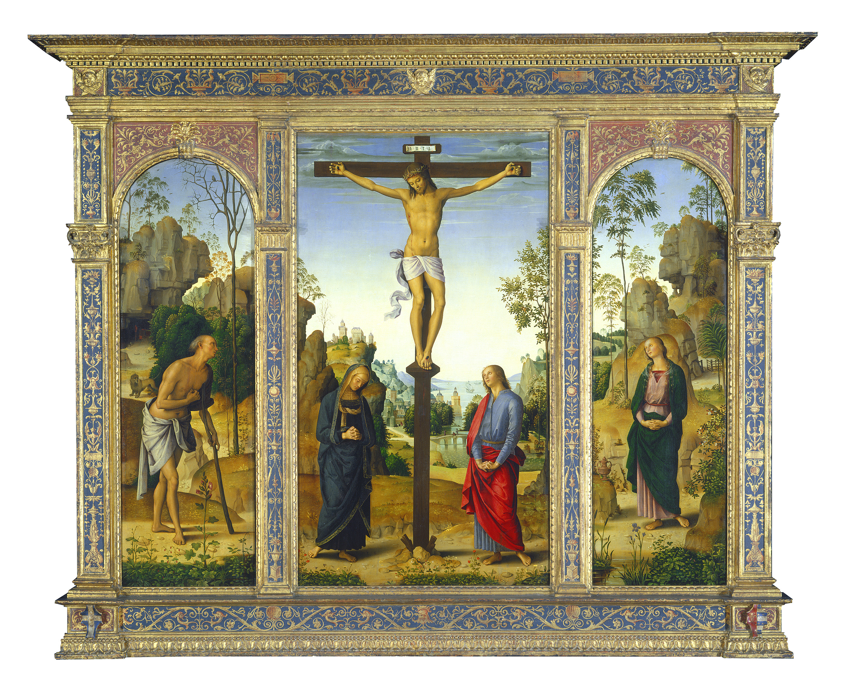 the landscape is painted in the serene atmosphere of the scene, influence of flemish paintings